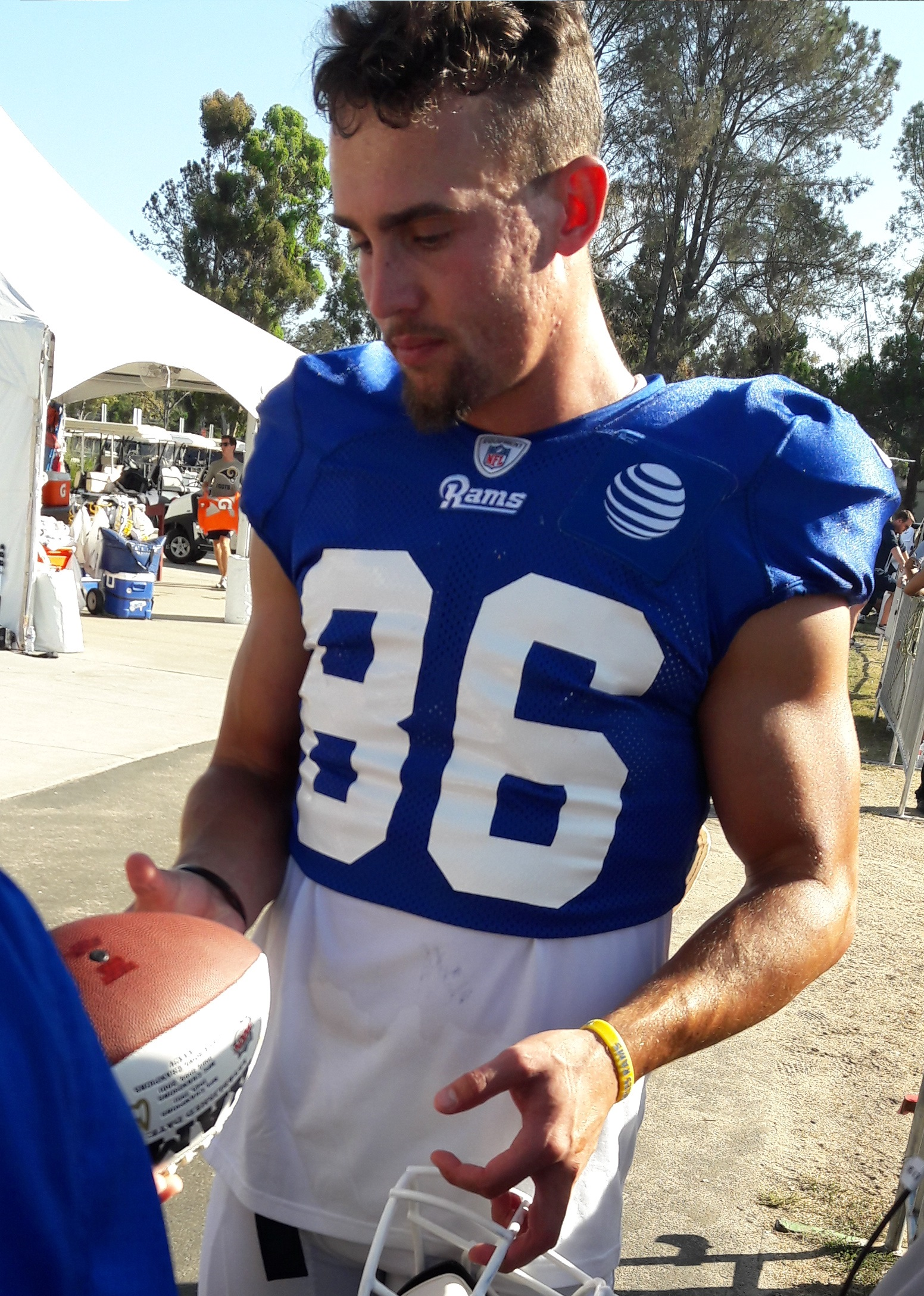 Nelson Spruce signing autographs at Rams training camp